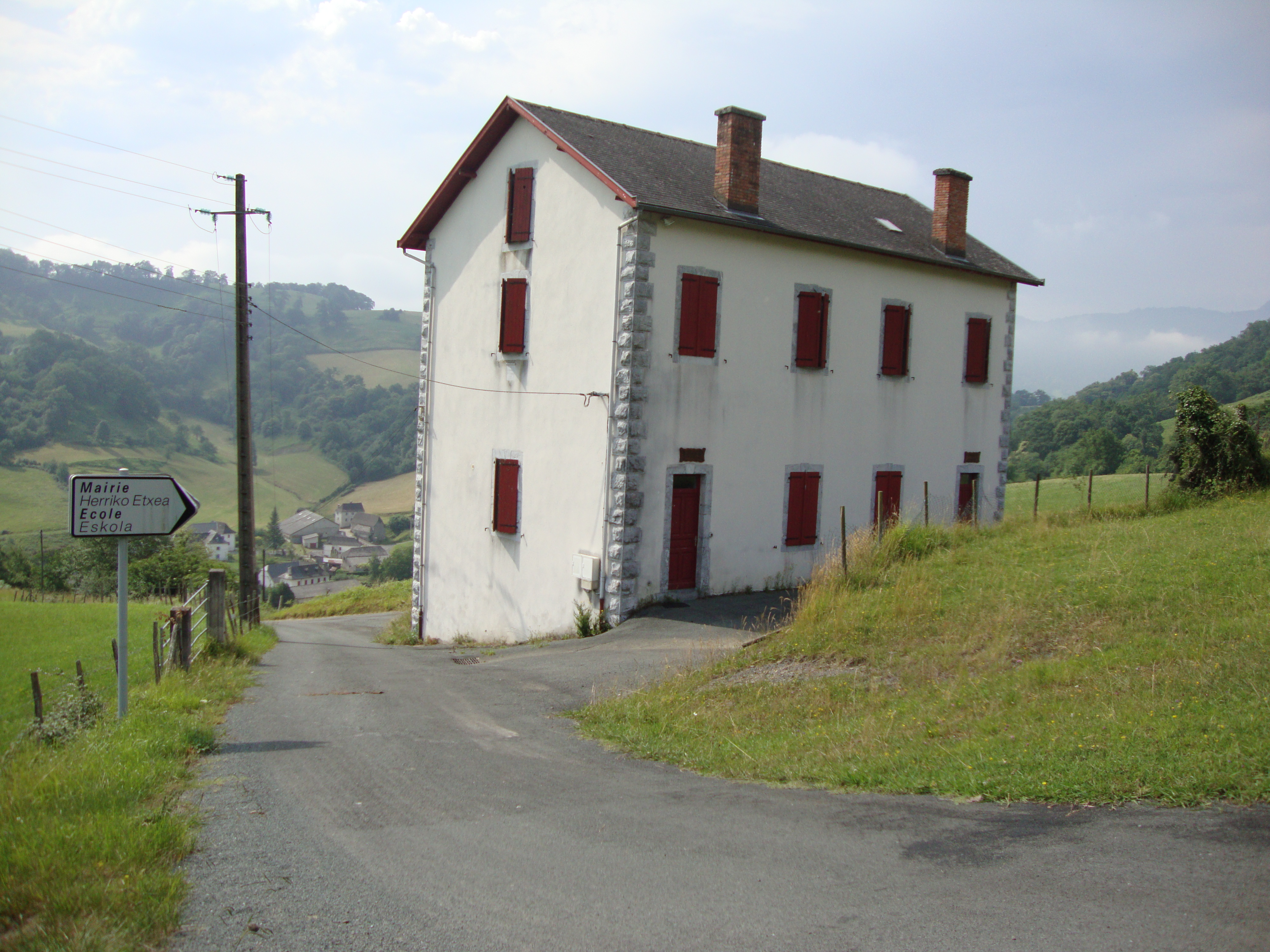 Camou (Camou-Cihigue, Pyr-Atl, Fr) town hall - school